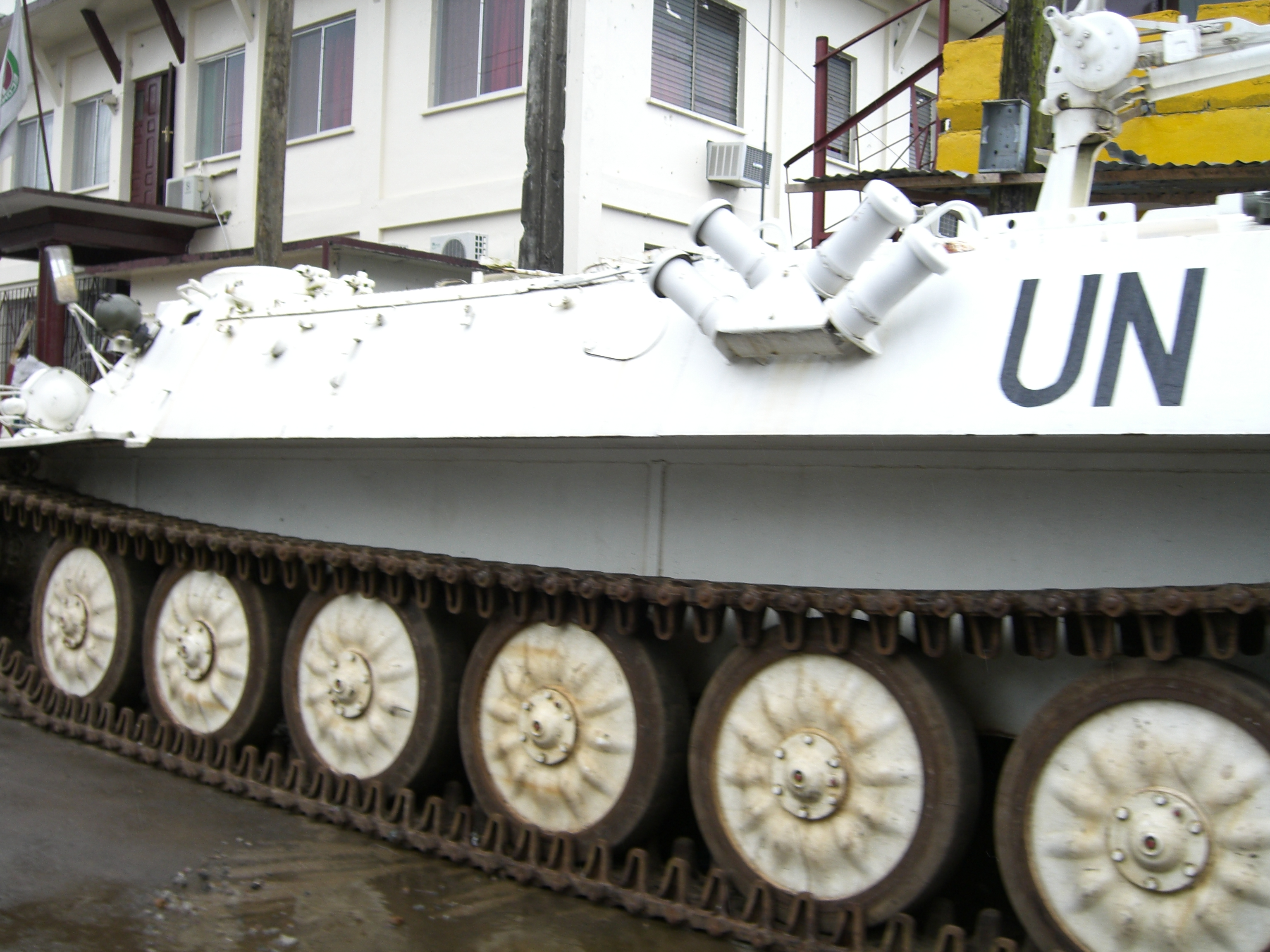 UN armoured personnel carrier, UNMIL